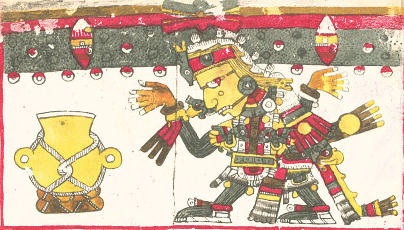 Huitztlampa described in the Codex Borgia